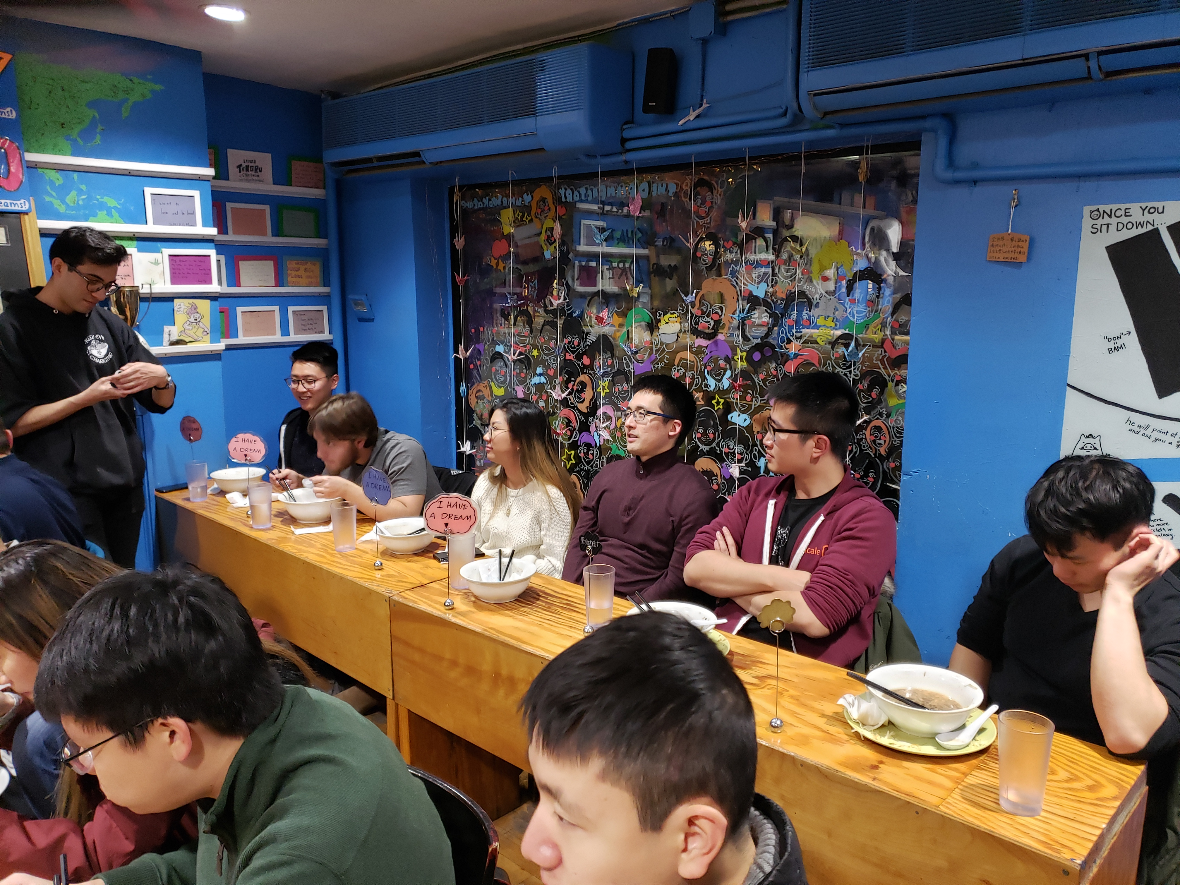 The dining room at Yume Wo Katare, a ramen bar in Cambridge, Massachusetts. Diners here are seen sharing their dreams with one another after finishing their meal, led by restaurant staff.